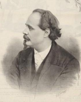 Portrait of the Italian tenor Mario Tiberini (1826-Published between 1858-18761880)